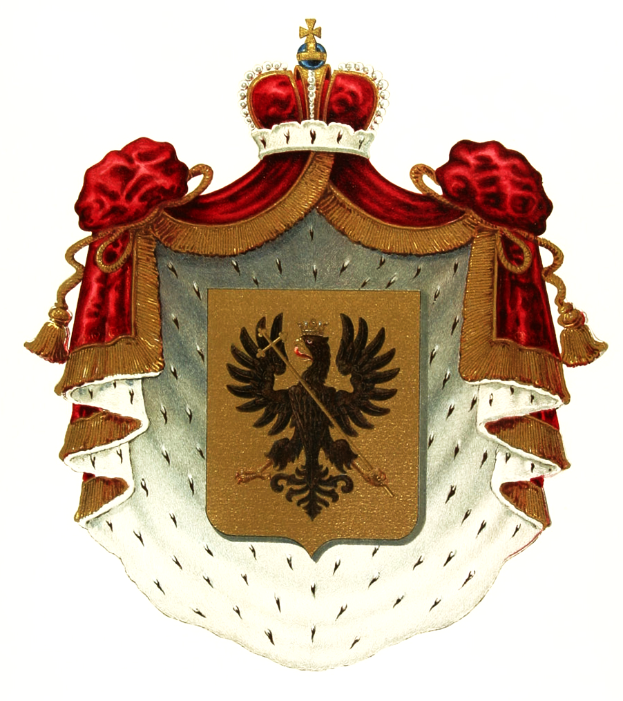 Coat of Arms of Gorchakov